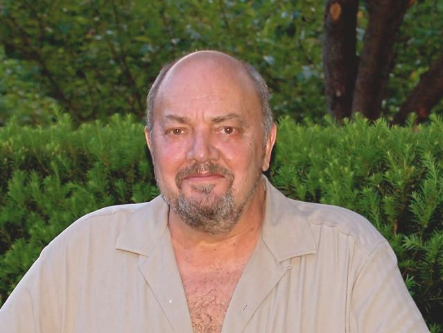 George DiCenzo, American character actor